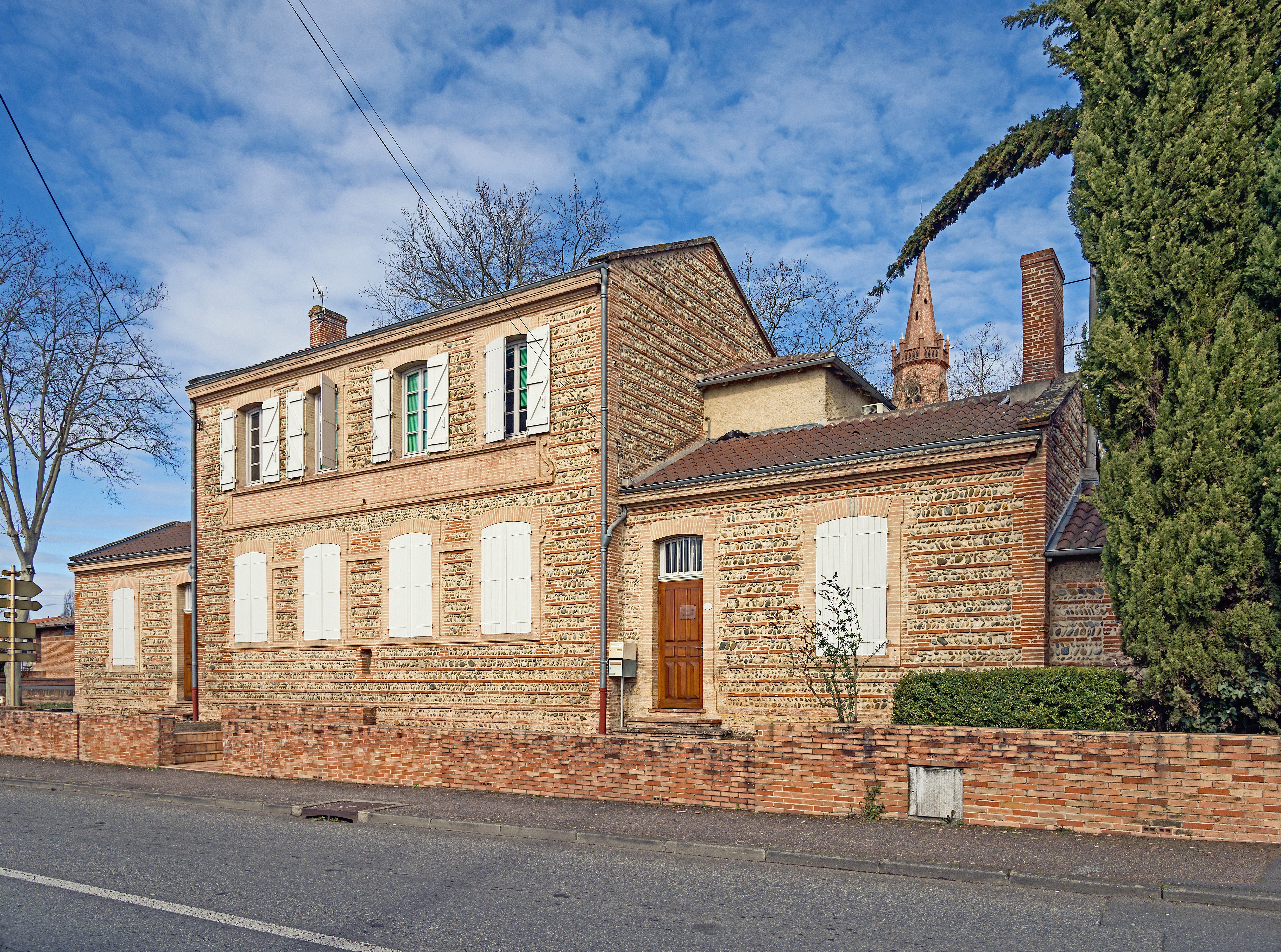 L’Union, former town hall.